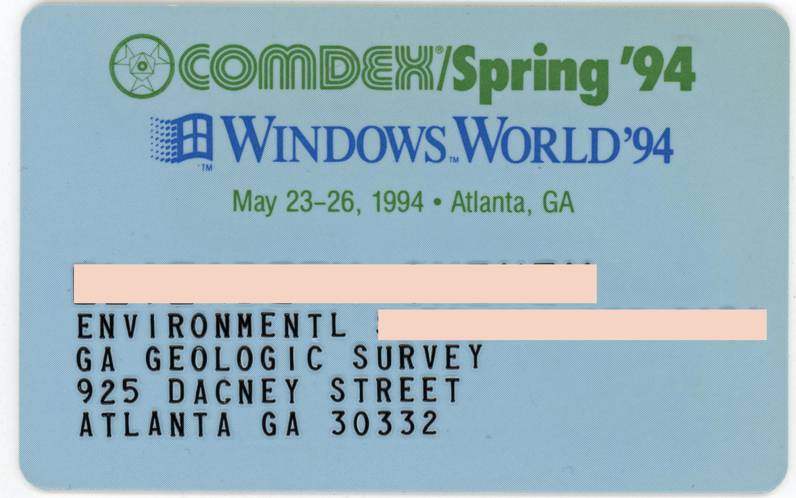 My scan